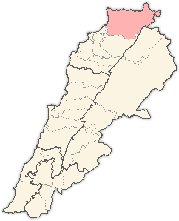 Map of districts in Lebanon, highlighting the Akkar District